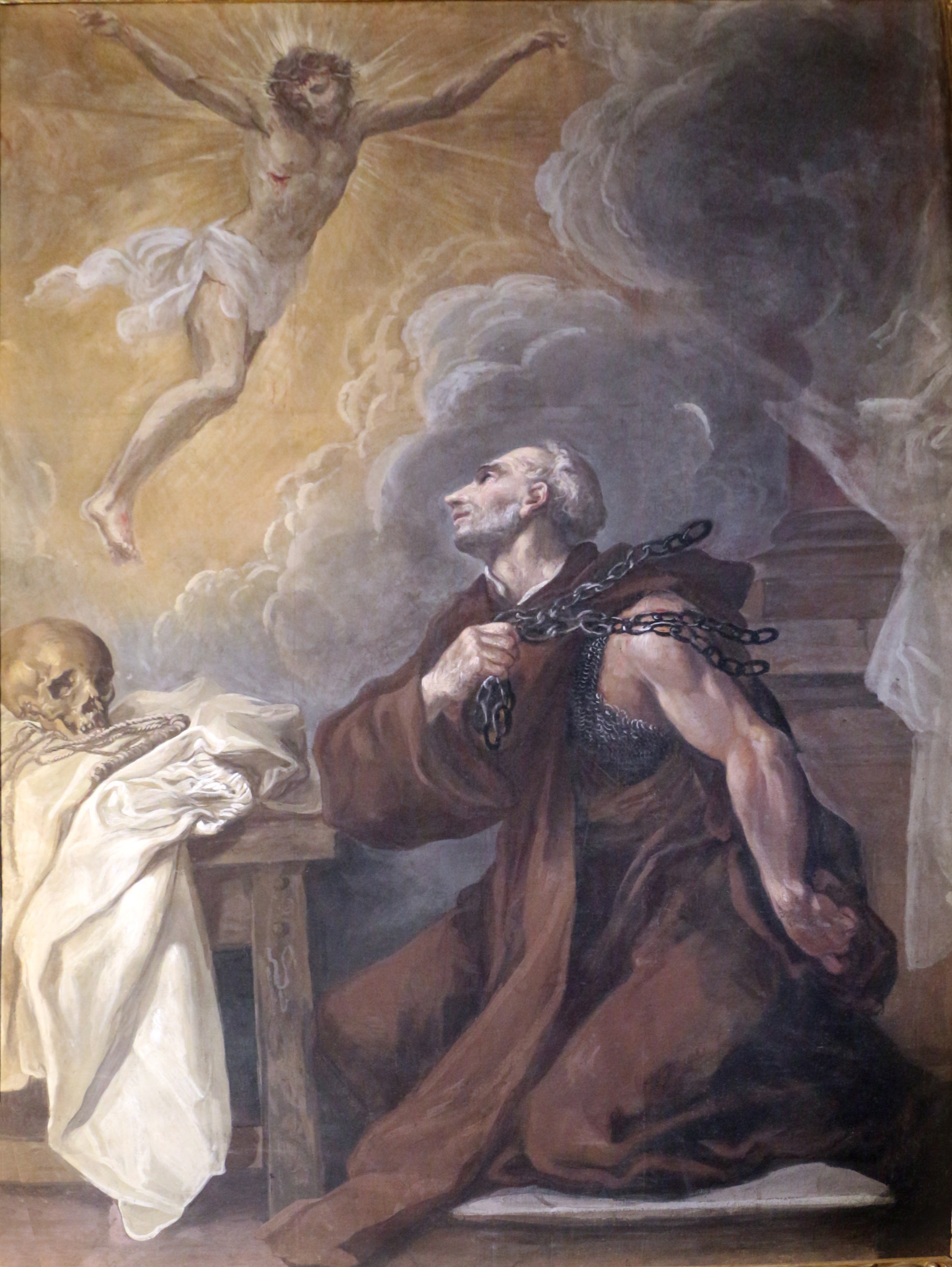 San Martino (Bologna) - Interior